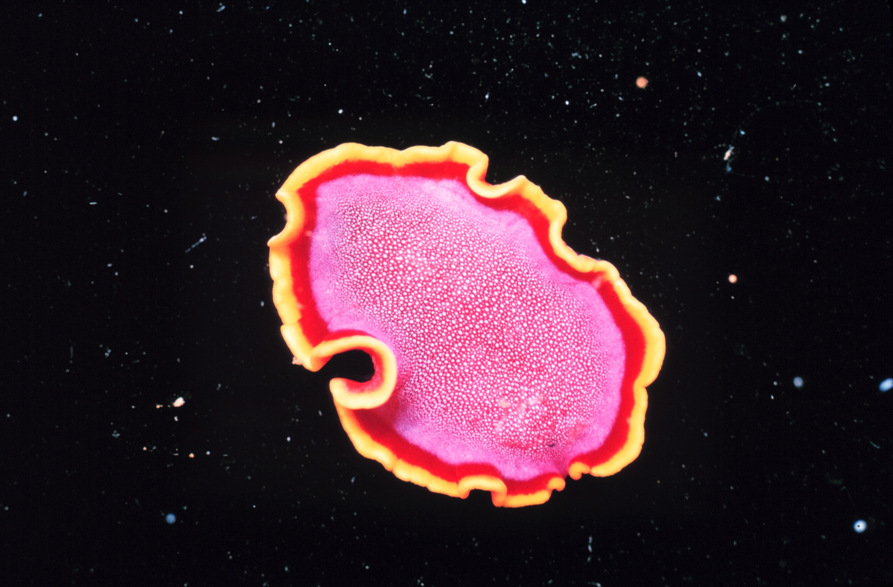 Flatworm Pseudoceros ferrugineus